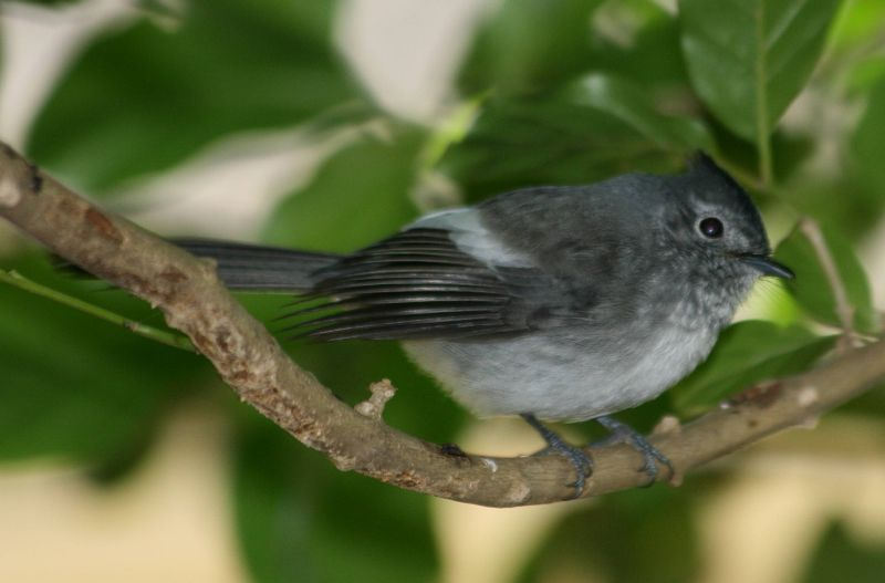 Female. Location: Pietermaritzburg, South Africa